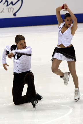 2007 Junior Grand Prix Lake Placid - Charlène Guignard and Guillaume Paulmier